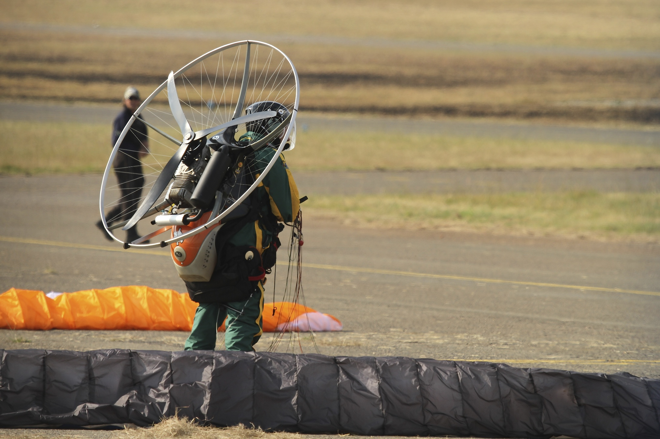 Powered Paraglider Closeup